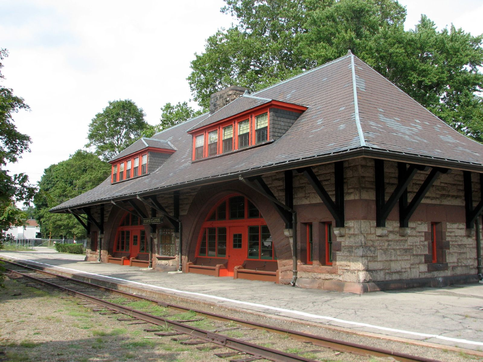 North Easton Railroad Station